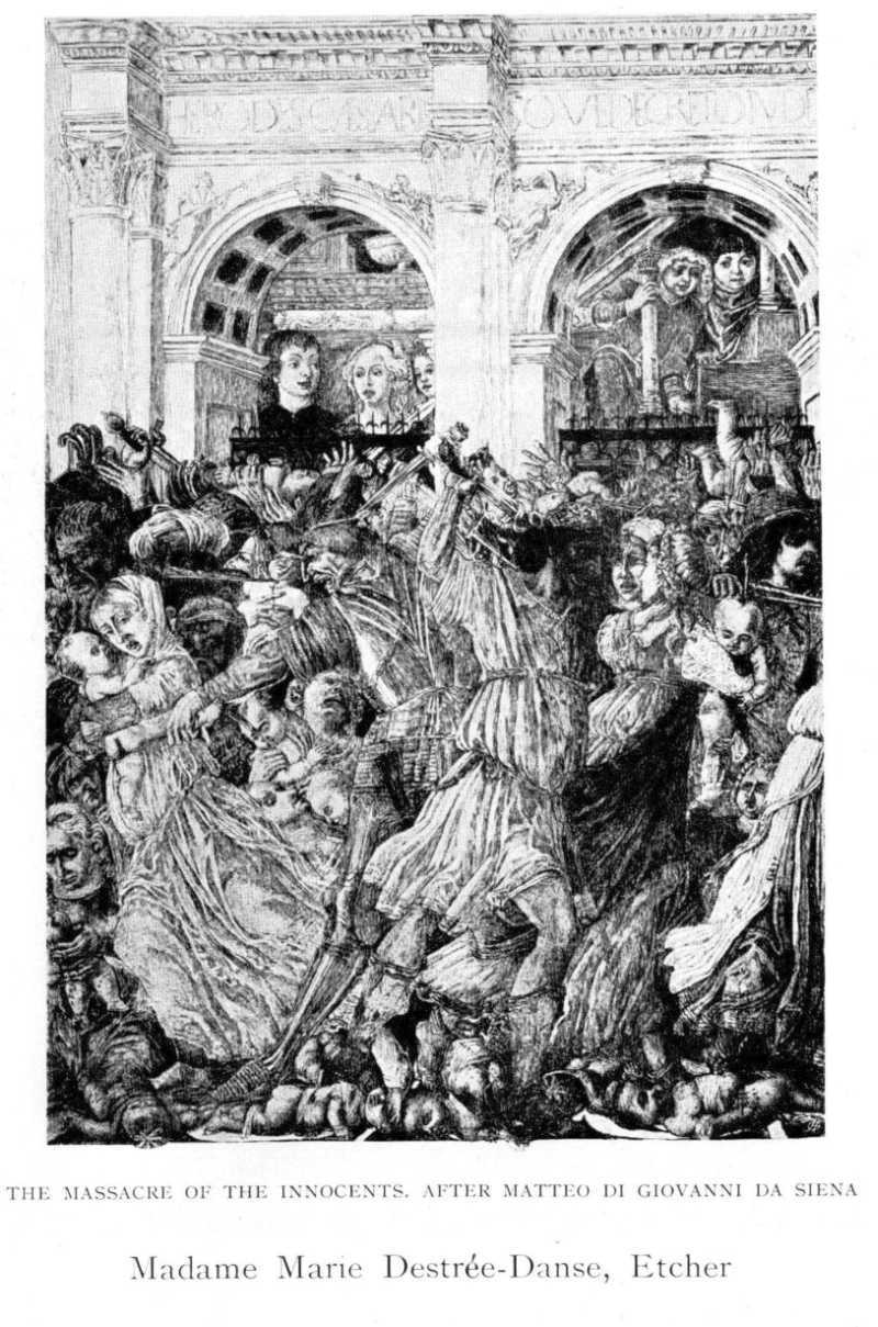 1905 print after page of Women painters of the world, from the time of Caterina Vigri, 1413-1463, to Rosa Bonheur and the present day, by Walter Shaw Sparrow, The Art and Life Library, Hodder & Stoughton, 27 Paternoster Row, London